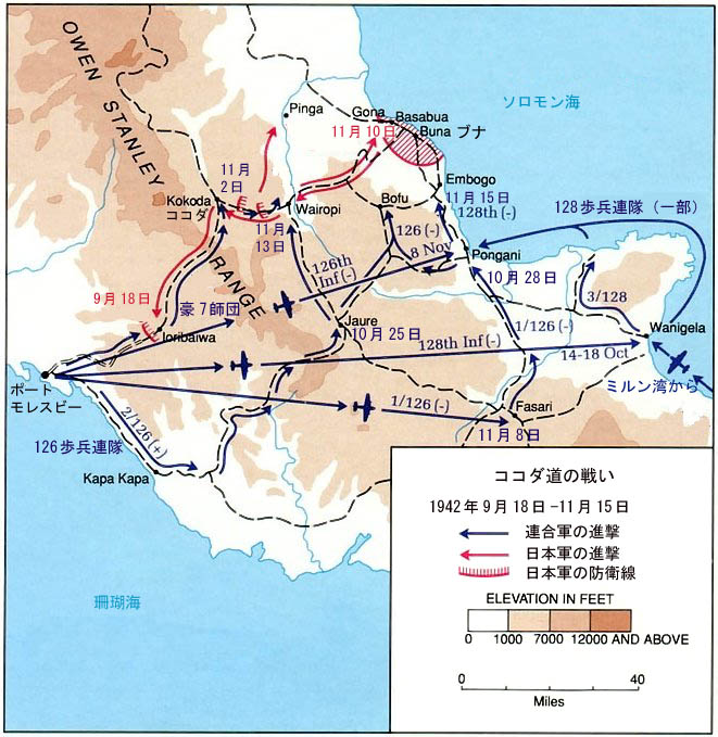 Image:Fight for the Owen Stanley Range - 18 Sep.-15. Nov. 1942.jpg を基に日本語化。